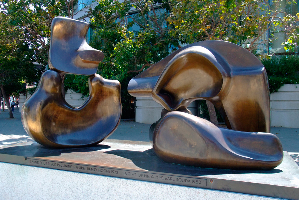 Statue, "Large Four Piece Reclining Figure" by Henry Moore, 1973. Bronze. Currently located outside the Davies Symphony Hall in San Francisco.